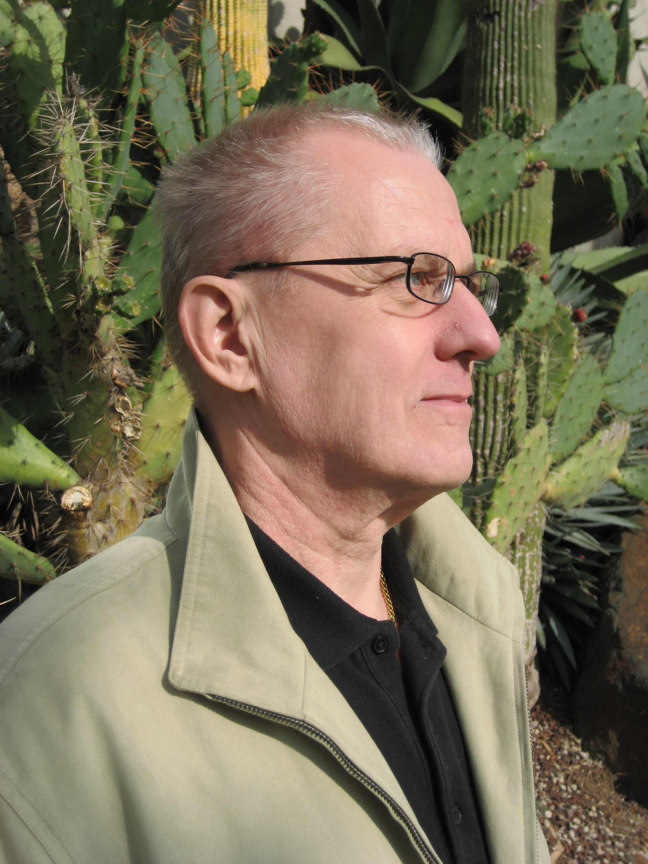 Author Tarmo Väyrynen